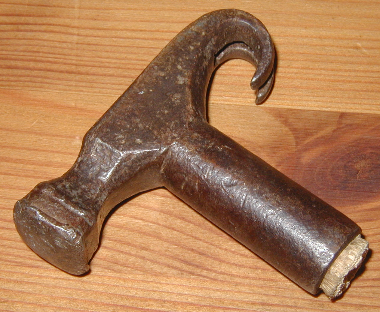 Head of a hammer. Picture taken and uploaded by Roger McLassus (owner).